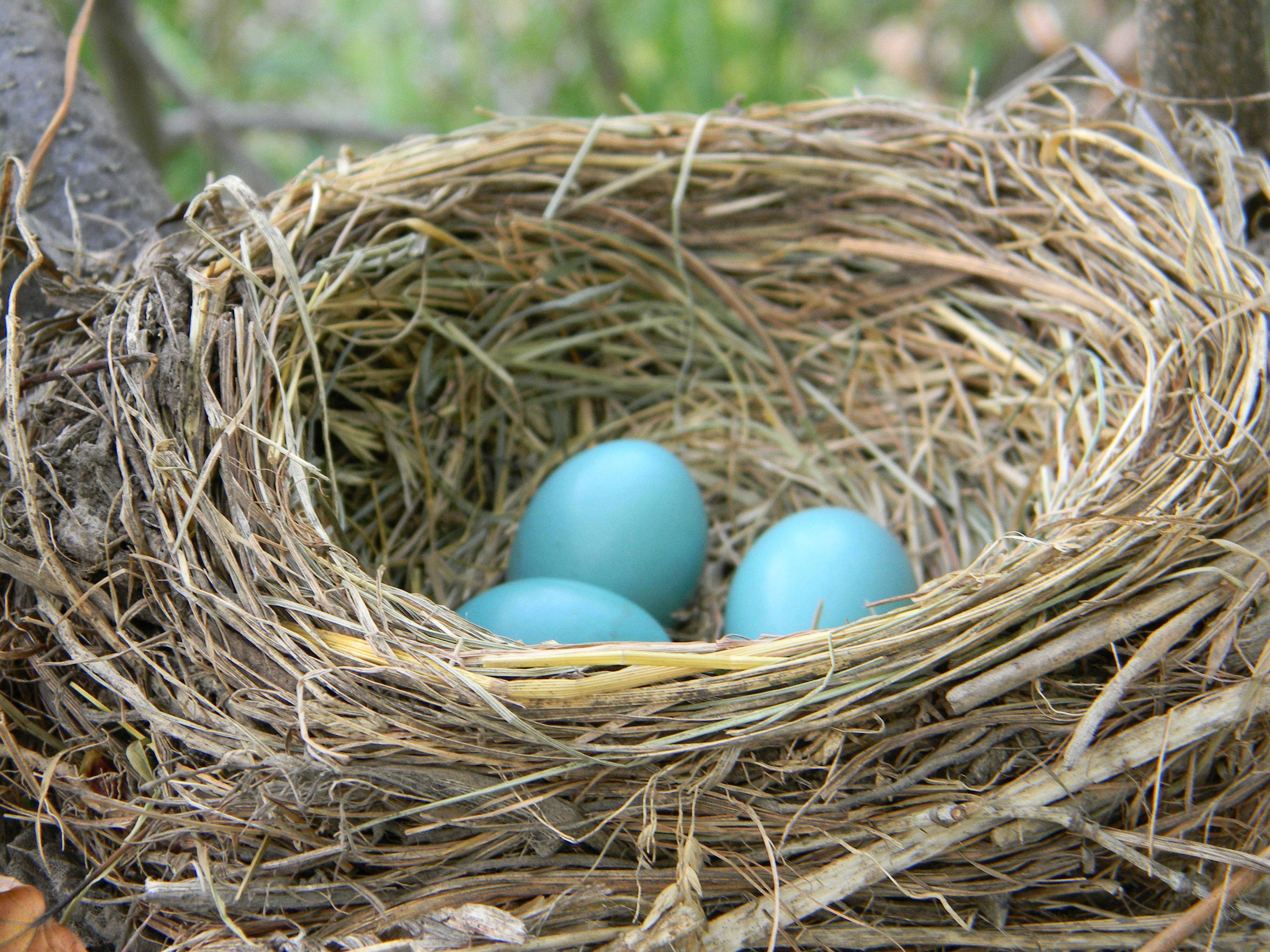 American Robin (Turdus migratorius) Nest with Eggs